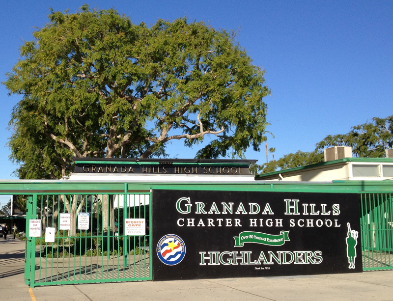 Gateway of Granada Hills Charter High School — Granada Hills, San Fernando Valley, Los Angeles.